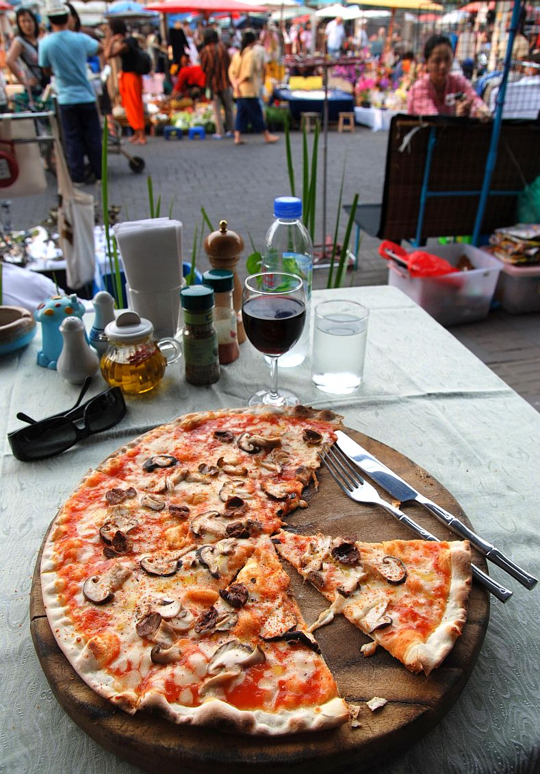 A Roman style (very thin and slightly crispy) pizza "con funghi e olive": with mushrooms and (black) olives. Toppings on this pizza are: sliced mushrooms, sliced black olives, mozzarella cheese and tomato sauce. I personally added some olive oil infused with dried chillies and garlic, freshly ground black pepper and some (I like spicy food) ground dried chillies. In the city of Chiang Mai, Thailand.